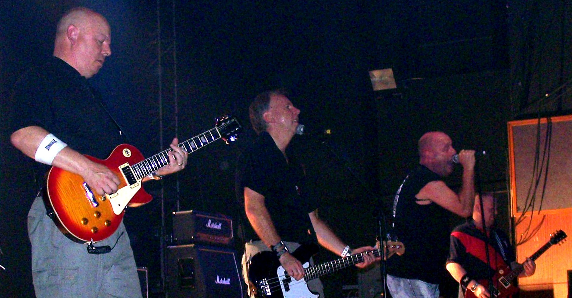 Cock Sparrer live in London